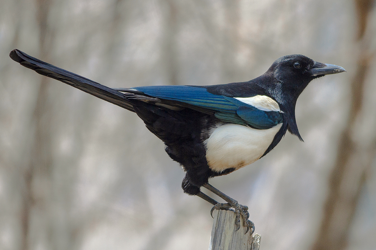 The species Black-rumped Magpie Pica bottanensis had been photographed from the Bumthang township area during the photography tour of GoingWild in Bhutan in March 2017.